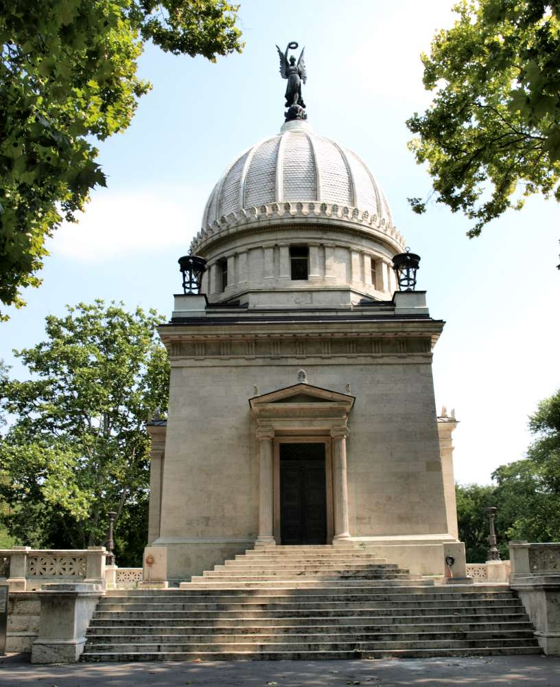 Mausoleum of Ferenc Deák in Kerepesi Cemetery (Budapest District VIII)